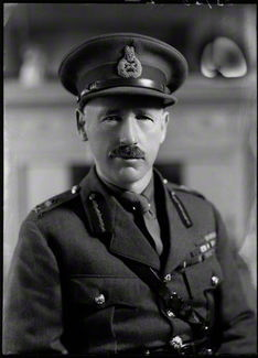 Portrait of General Clement Armitage